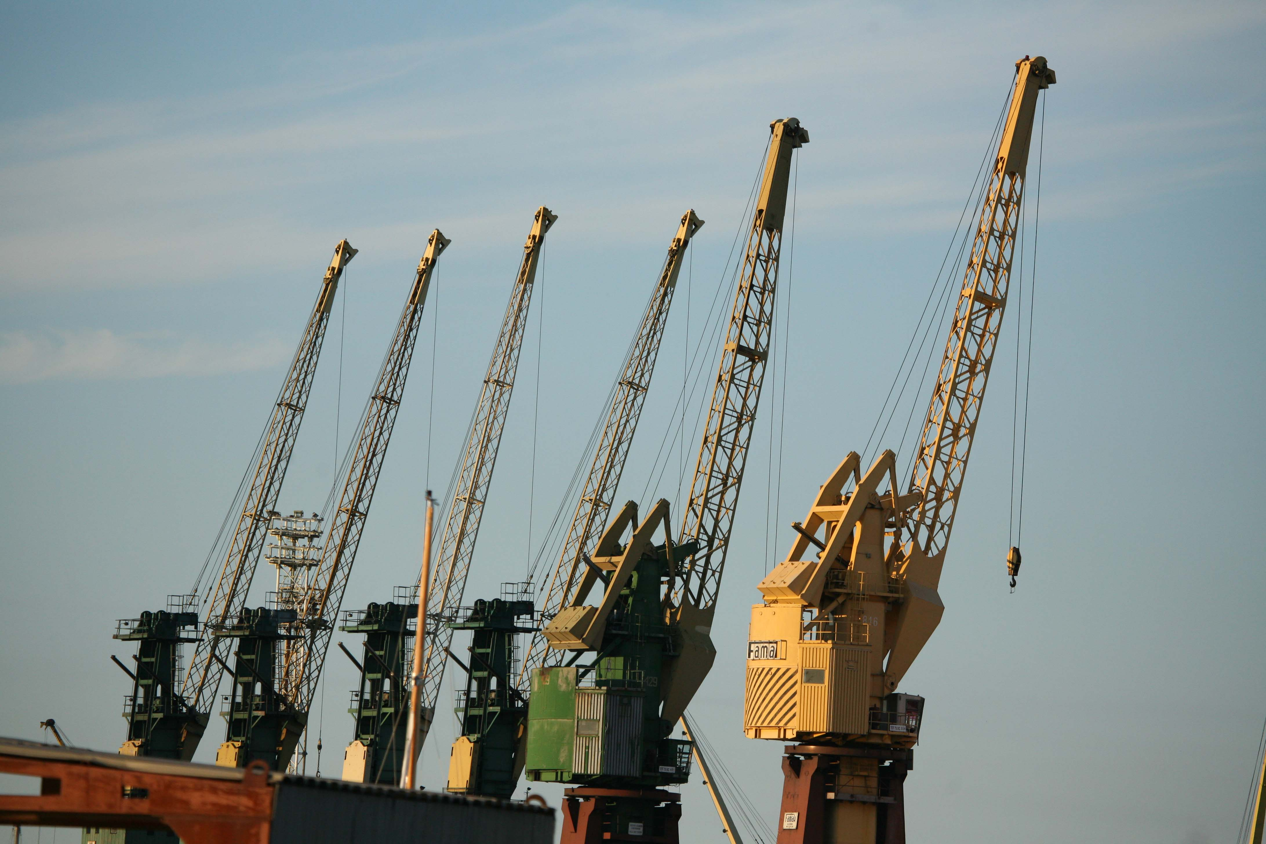 Cranes in Port of Szczecin (Poland). Photo taken during "The Tall Ships' Races 2007" in Szczecin (Poland).